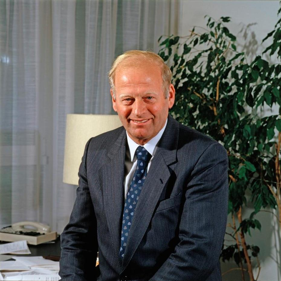 Landesrat Konrad Blank (1986)